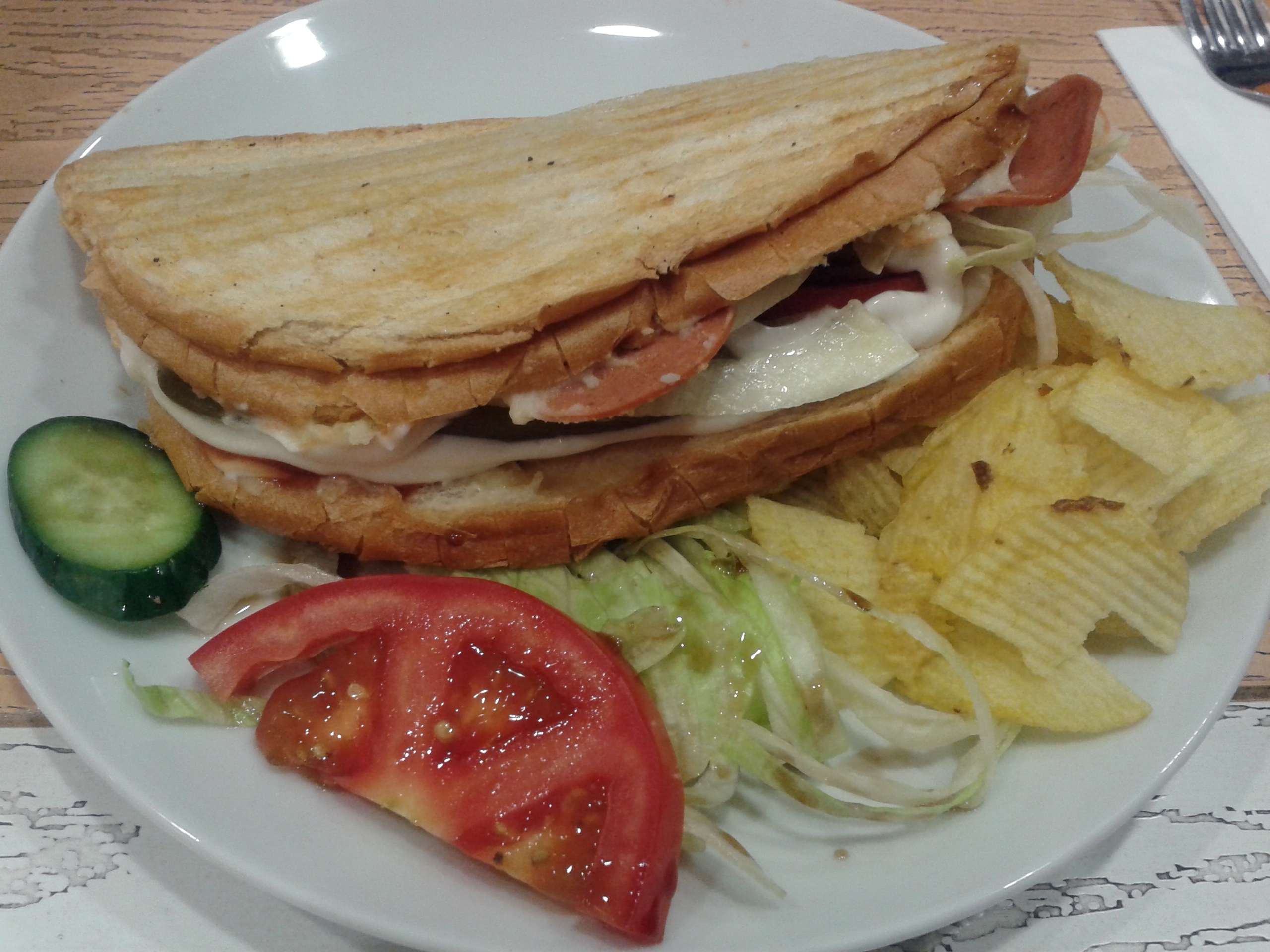 Ayvalık tostu in Ankara - June 2018.